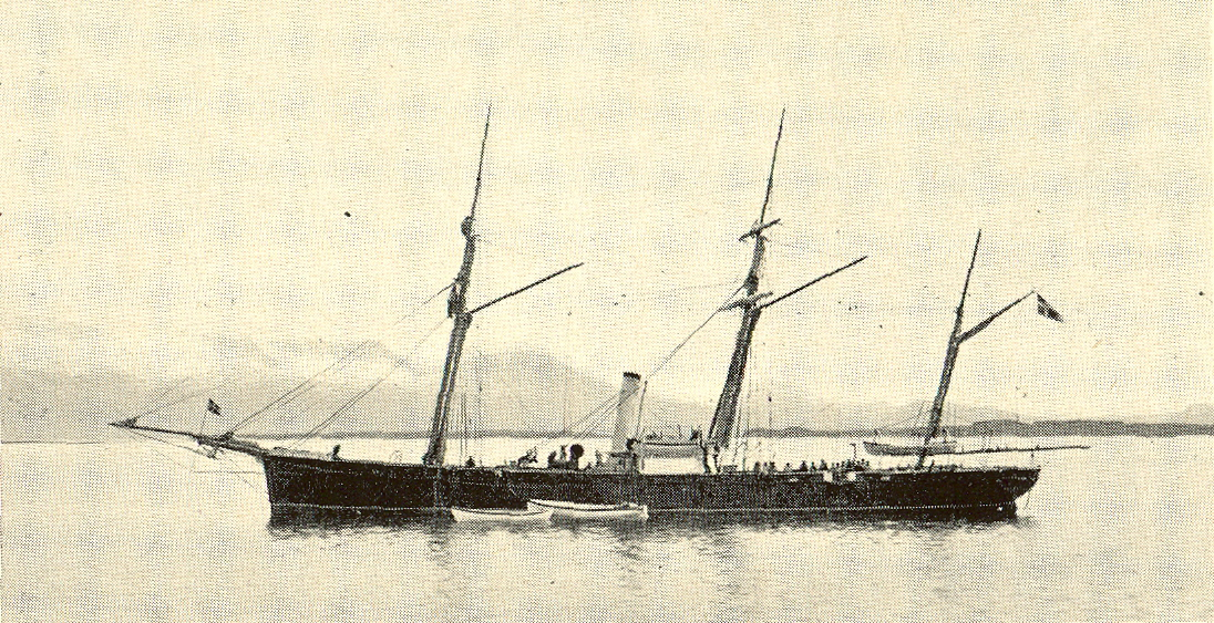 Danish Naval Schooner Diana at Reykjavik, Iceland, 1884